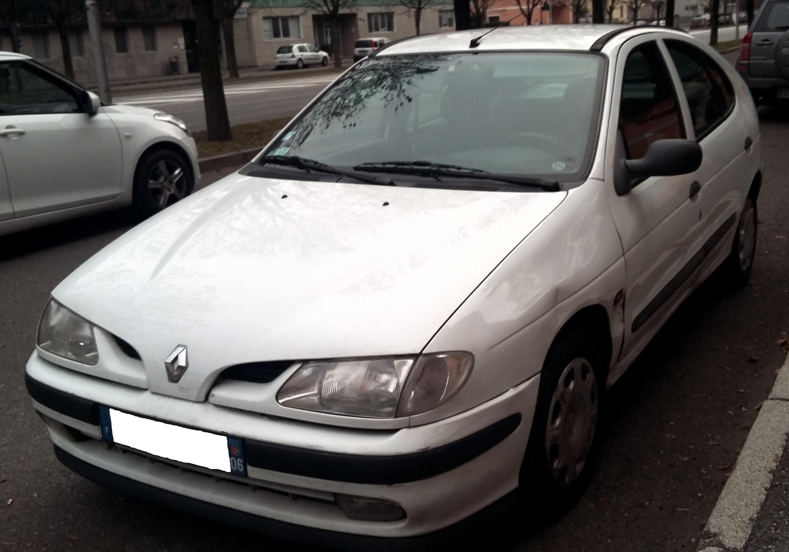 1995-2002 Renault Mégane